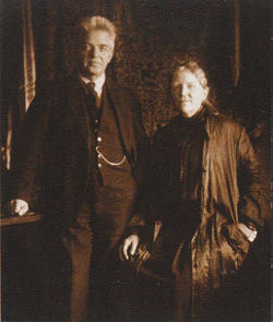 Danish composer Carl Nielsen and his wife sculptor Anne-Marie Carl-Nielsen